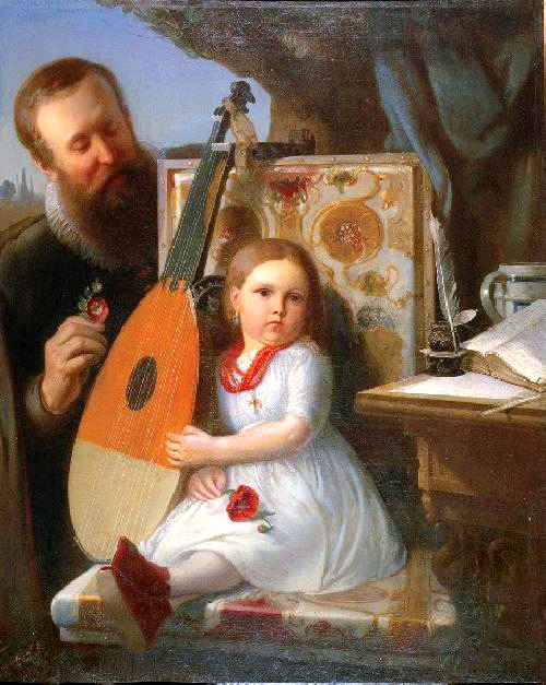 Jan Kochanowski with Ursula